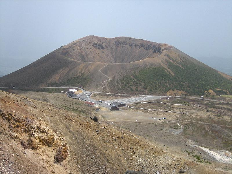 A picture of Mount Azuma-kofuji, a dormant volcano in Fukushima Prefecture, Japan. Image was taken with a Canon PowerShot SD450 Digital Elph camera and edited using a Paint Shop program on a laptop computer.